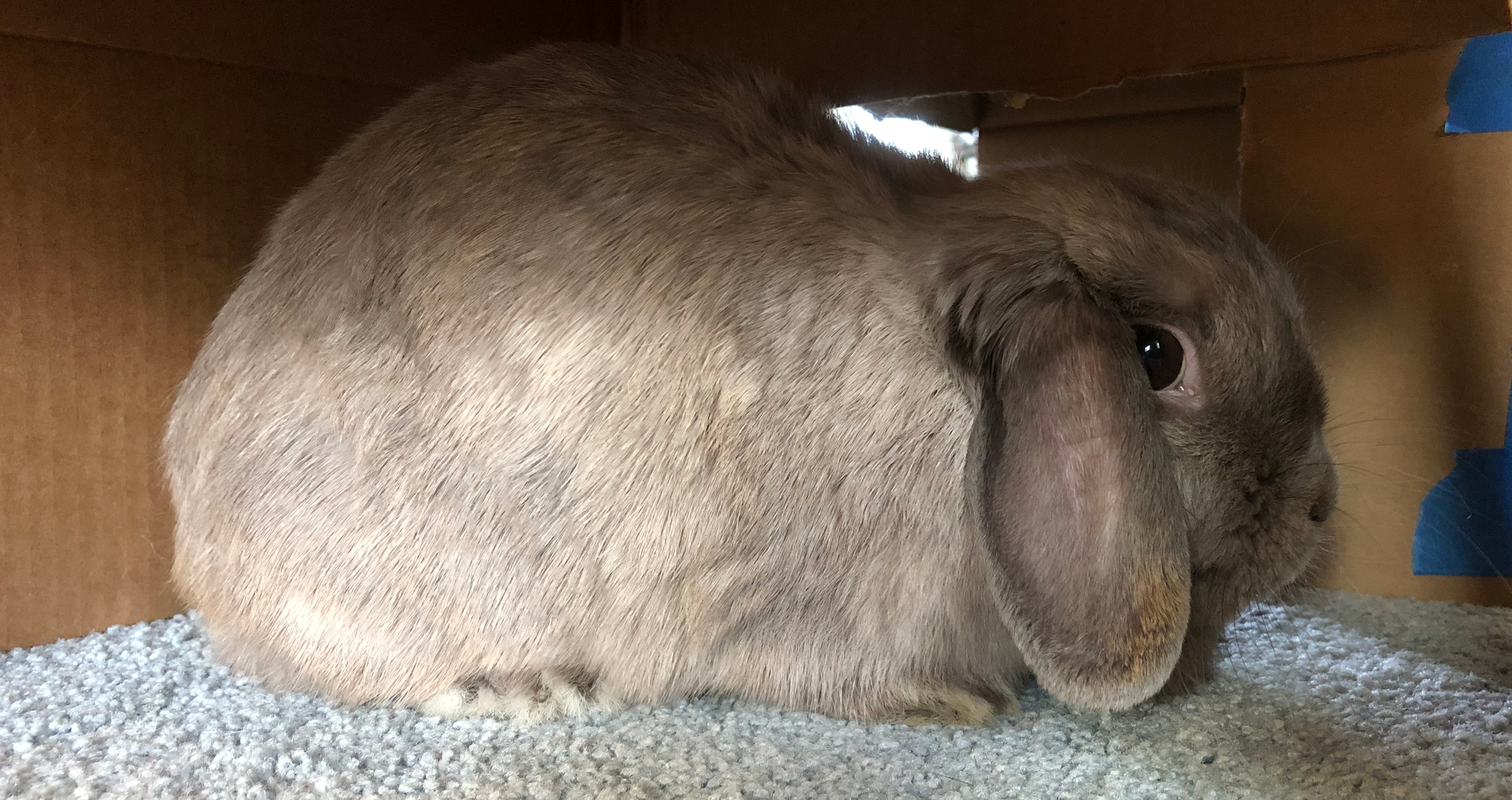 A Holland Lop hiding within a cardboard box, which demonstrates domestic rabbit behavior.